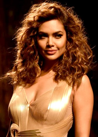 Esha Gupta walks the ramp for Amit Aggarwal at Lakme Fashion Week 2017.